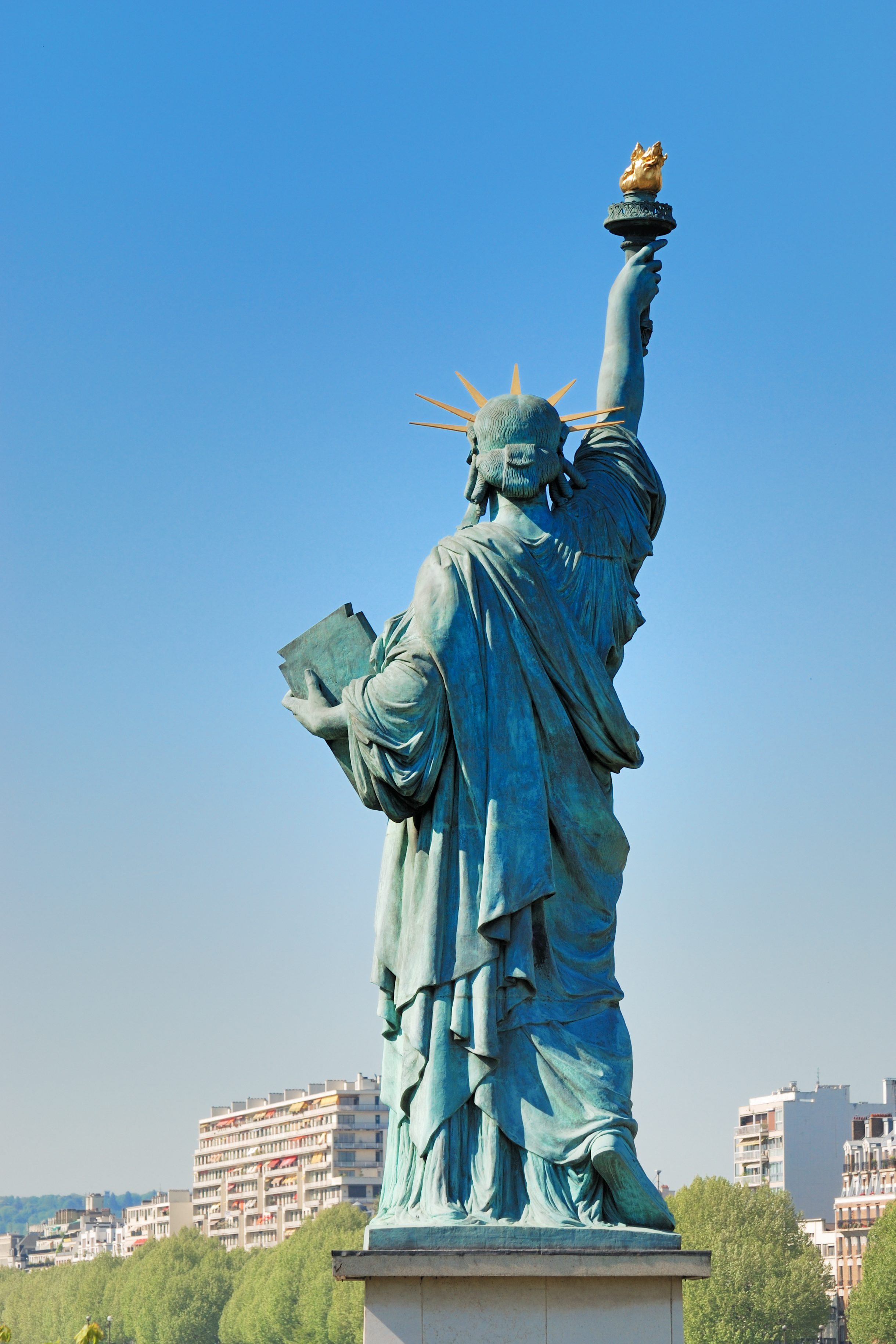 it's a photograph of the statue of the libery in Paris.